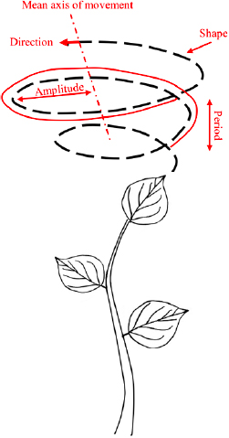 The growing tips of plant stems usual make circular movements called circumnutation, due to cyclic differences in the growth rates on different sides of the stem.